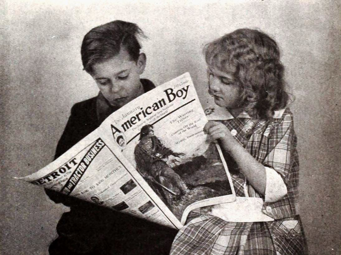 Edward Peil, Jr. (credited as Johnny Jones) and Lucille Ricksen looking over an American Boy magazine, on page 61 of the February 28, 1920 Exhibitors Herald. They starred in the 12 part film series called The Adventures and Emotions of Edgar Pomeroy.